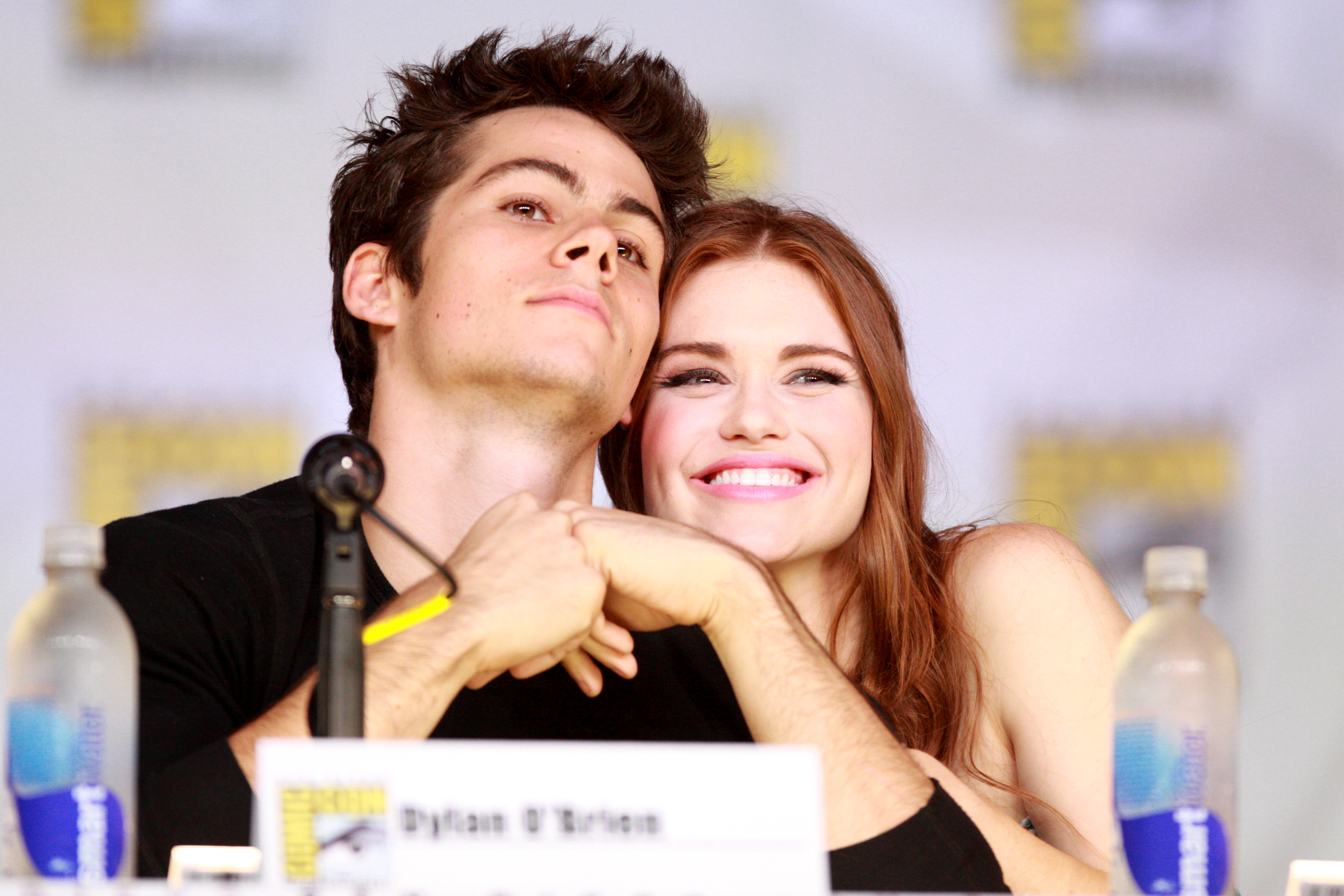 Dylan O'Brien and Holland Roden speaking at the 2013 San Diego Comic Con International, for "Teen Wolf", at the San Diego Convention Center in San Diego, California.